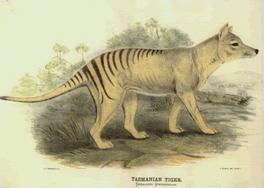 An illustration of "Tasmanian Tiger", Thylacinus cynocephalus. The lithograph is after H. C. Richter's illustration in The Mammals of Australia (Gould) (1845-1863).